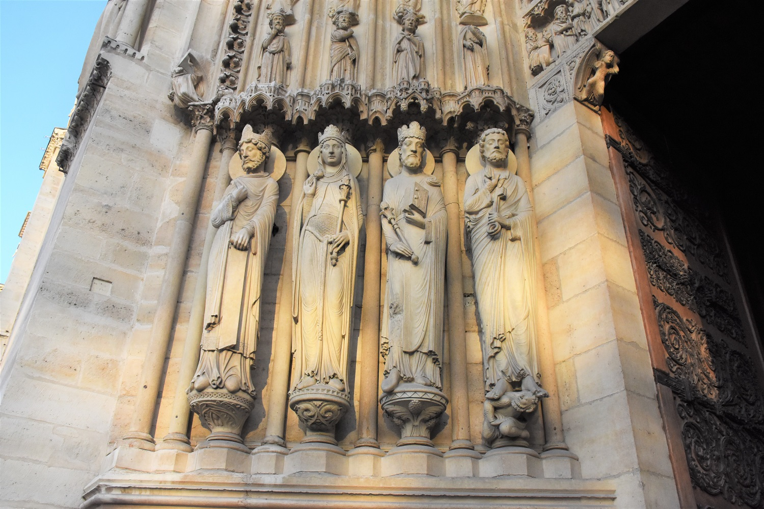 Notre Dame Cathedral - Paris - Statues - Reliefs to the left of the front entrance. Kings, Saints, Woman